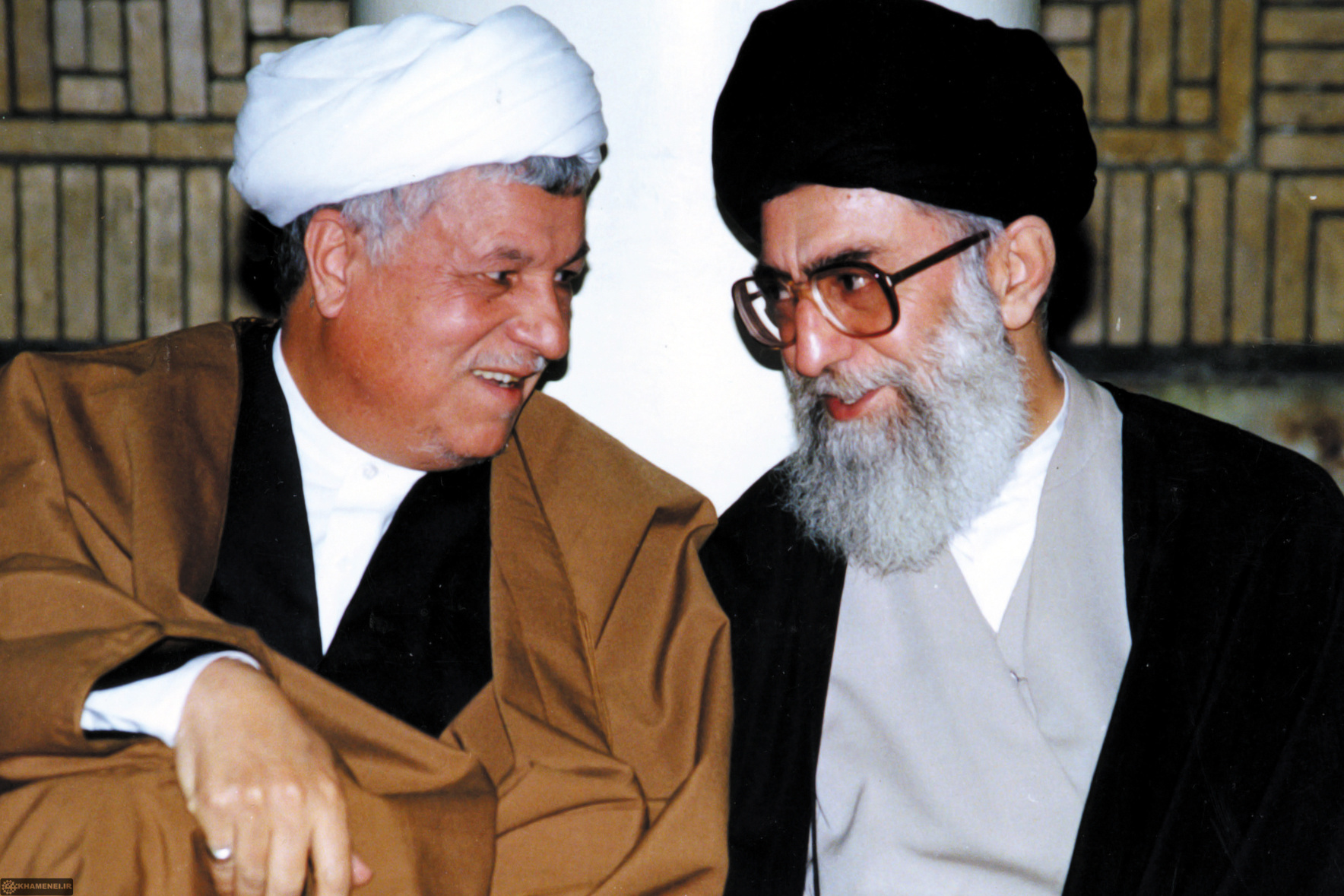 Supreme Leader Ali Khamenei and President Akbar Hashemi Rafsanjani